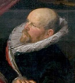 Portrait of Cornelis Jacobsz Schout in The Banquet of the officers of the Saint George Civic guard in Haarlem in 1616, detail